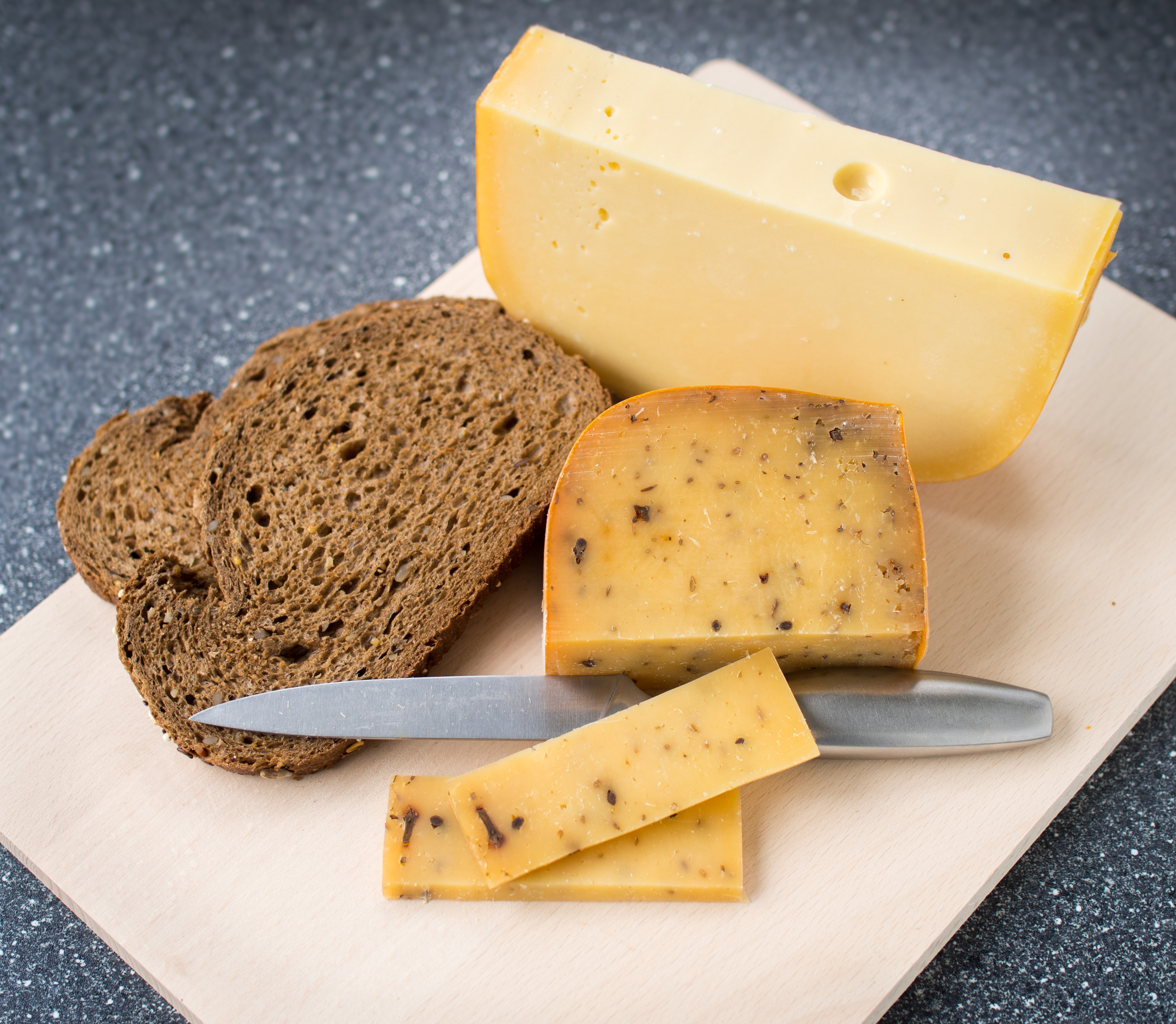 In front is a matured Dutch cheese flavoured with cloves and cumin, and behind is a matured Dutch "farmer's cheese". The latter piece was cut from a cheese weighing approximately 60 kg, which was made from 600 liter of milk.